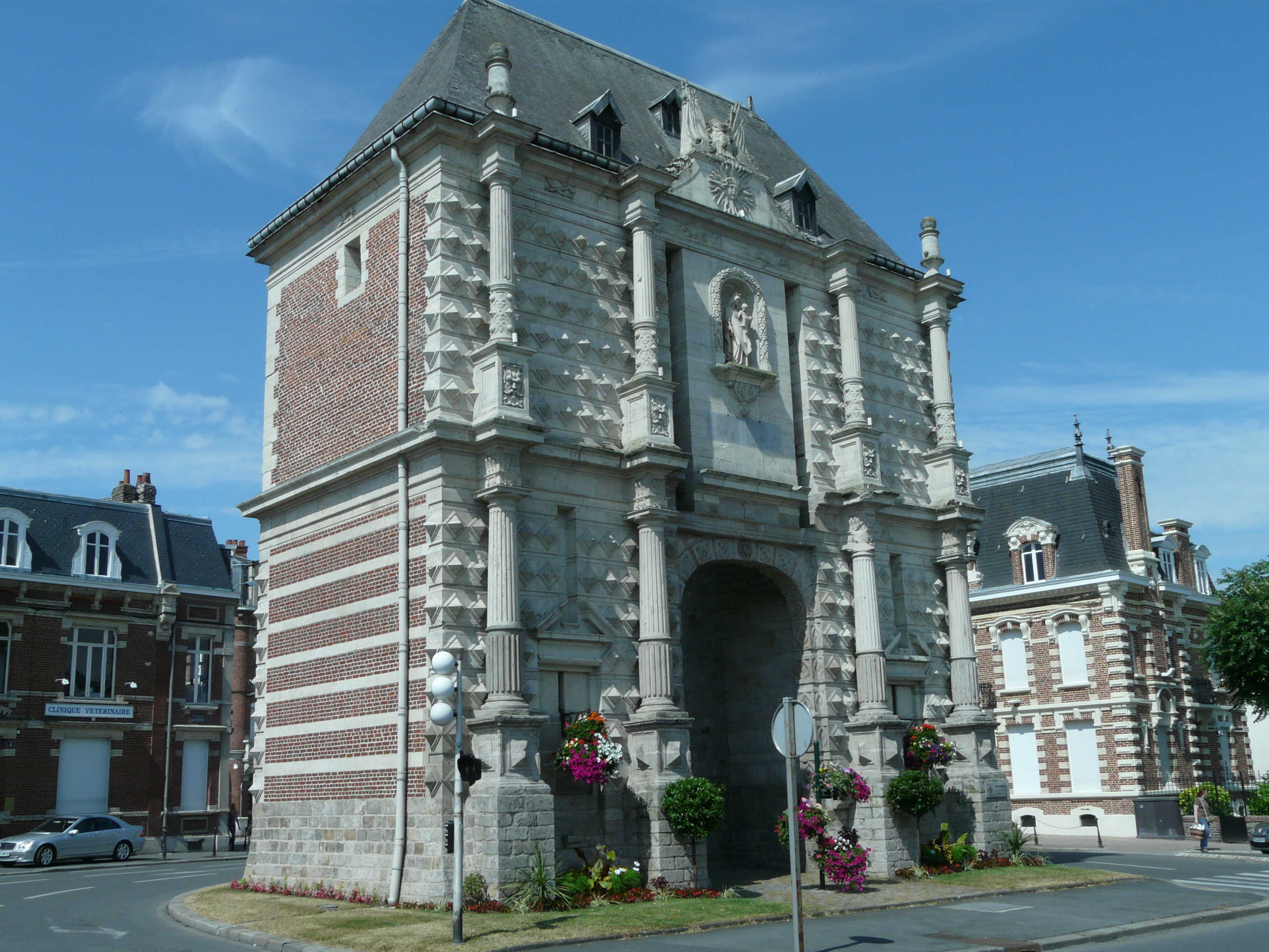 Notre-Dame (Our Lady) Gate, Cambrai (1623)